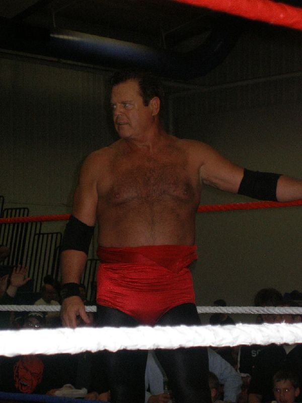 Professional wrestler Jerry "The King" Lawler in April 2007 at an NEW show